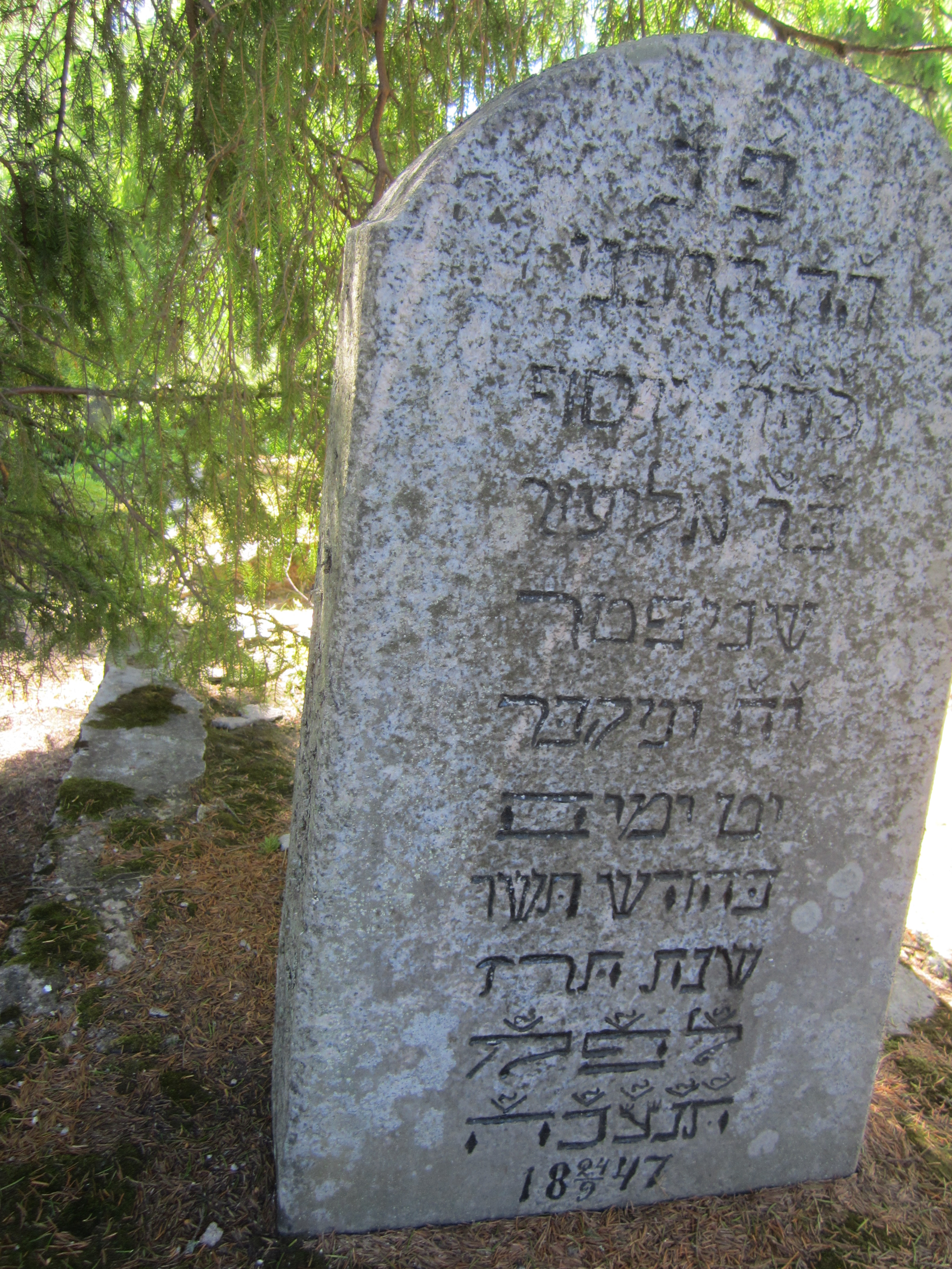 Old Orthodox cemetery near Hamina, jewish section. Grave memorial for the soldiers who served in the Russian Imperial Army. (Cantonist)